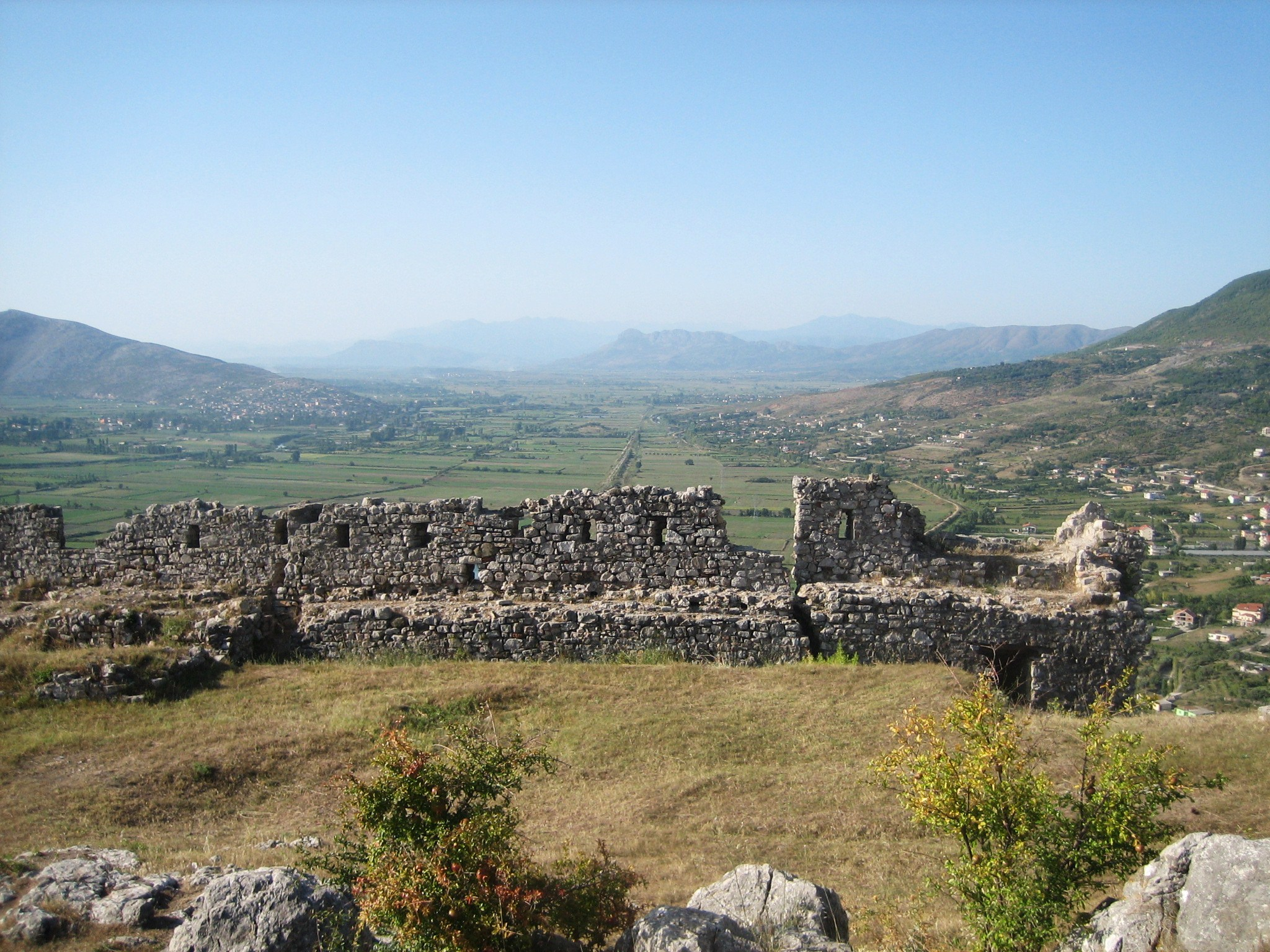 Inside Lezhë Castle, Lezhë, Albania